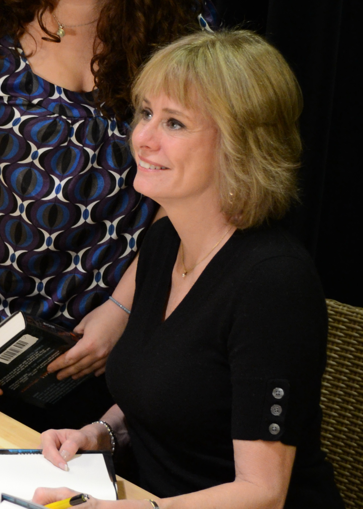 Kathy Reichs at Virals book signing event. Location: Indigo Yonge & Eglinton, Toronto